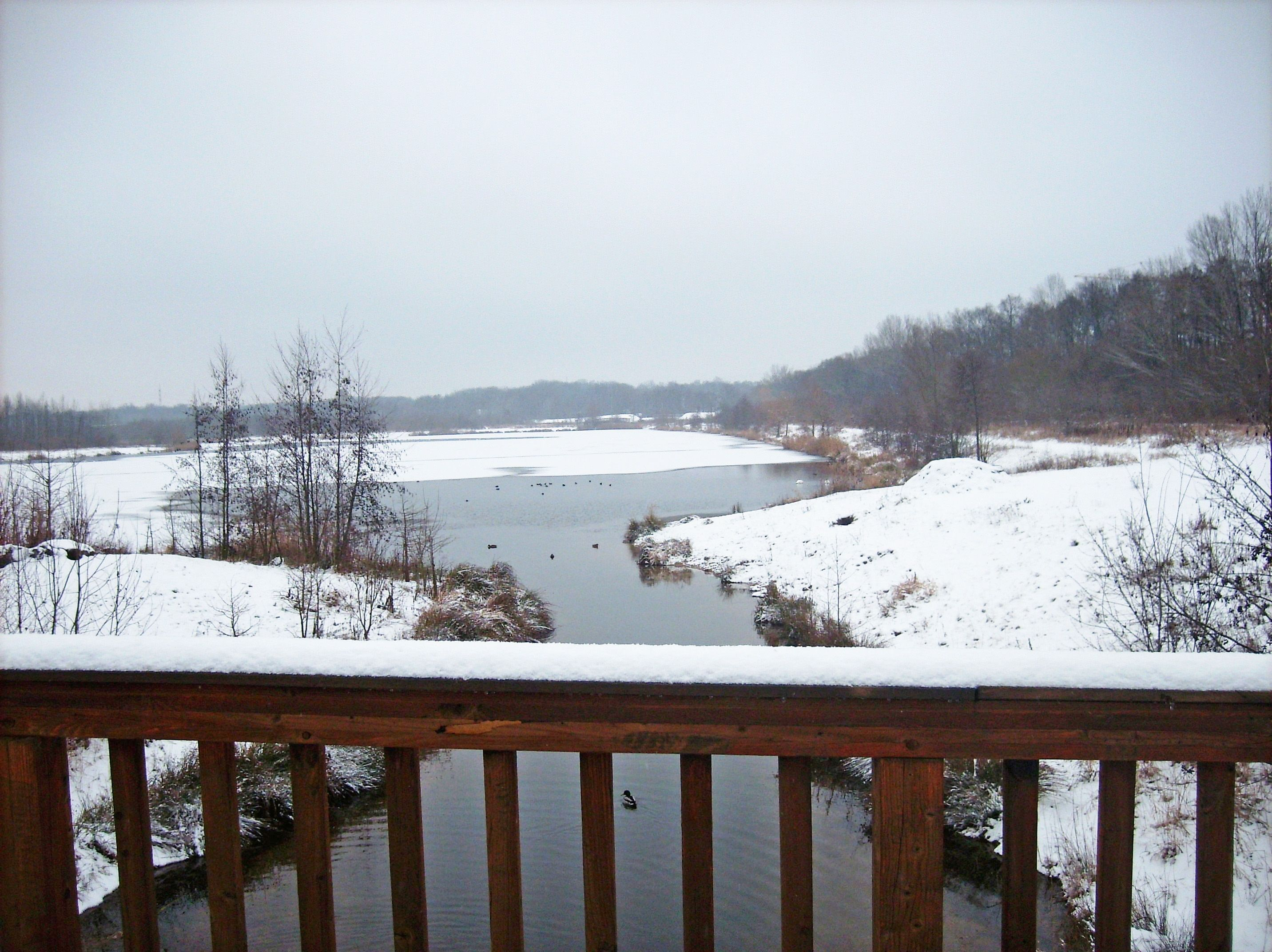 Wolf Lake (former Lauer Wood swimming-bath) in Markkleeberg (Leipzig district, Saxony) in winter